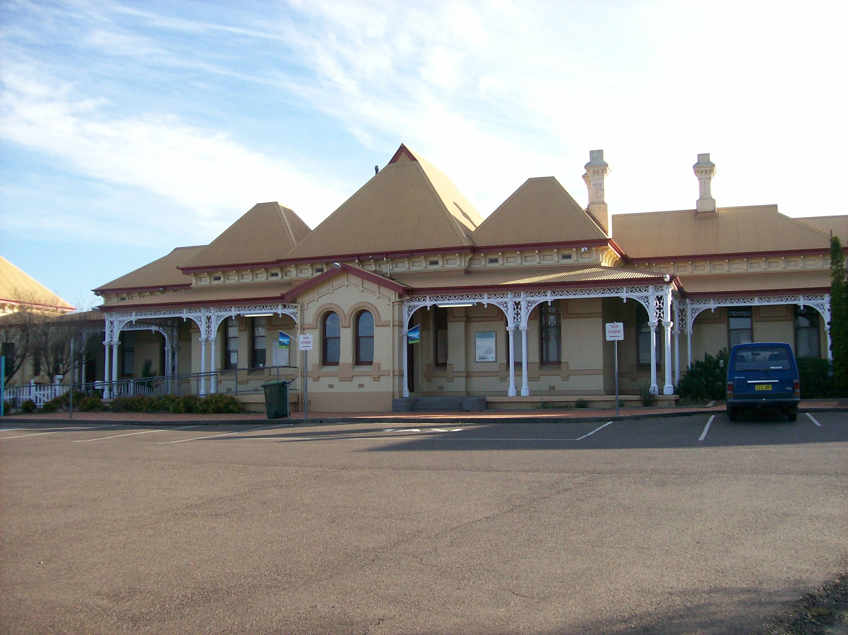 Taken by MichaelGG September 2007